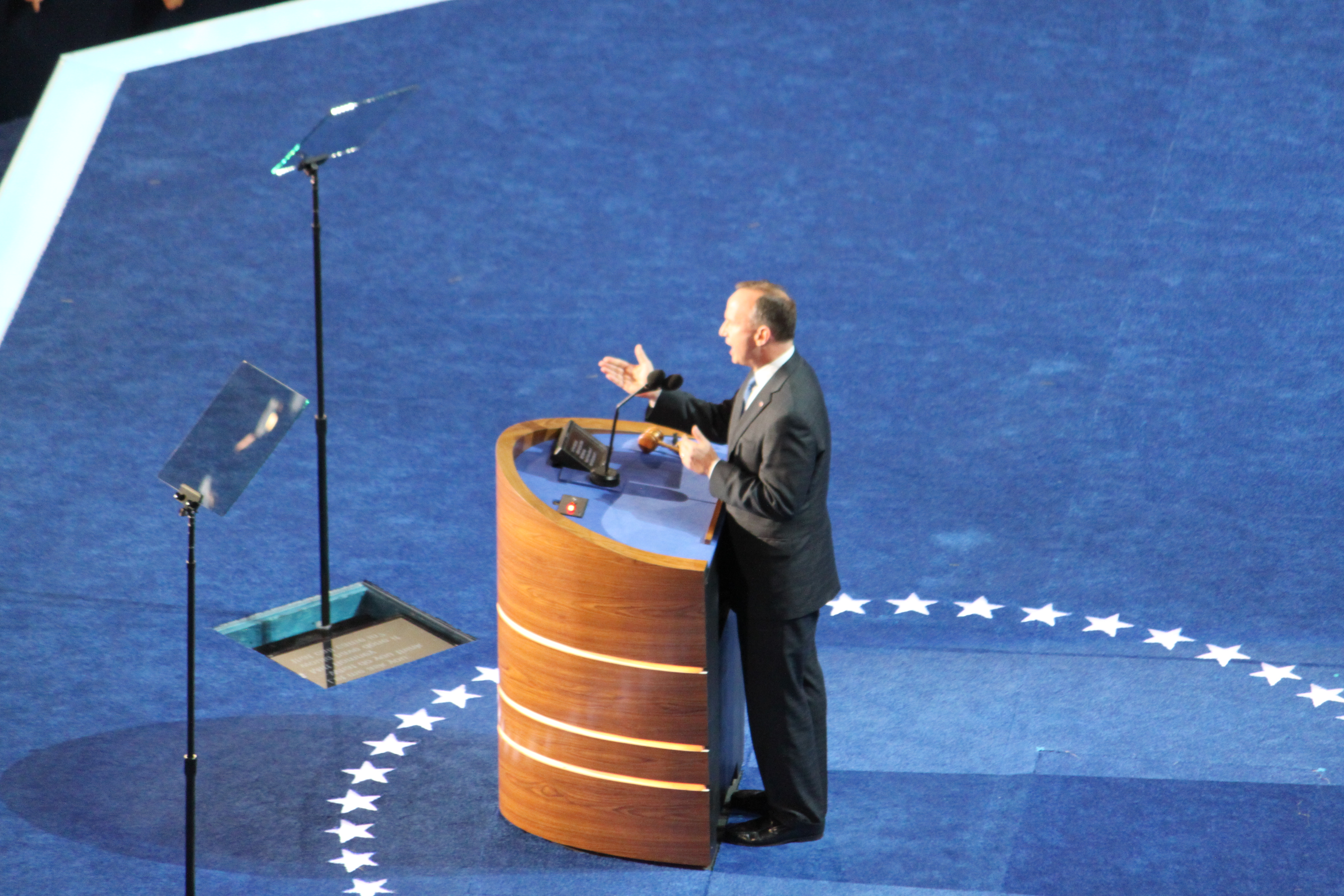 2012 Democratic National Convention: Day 2